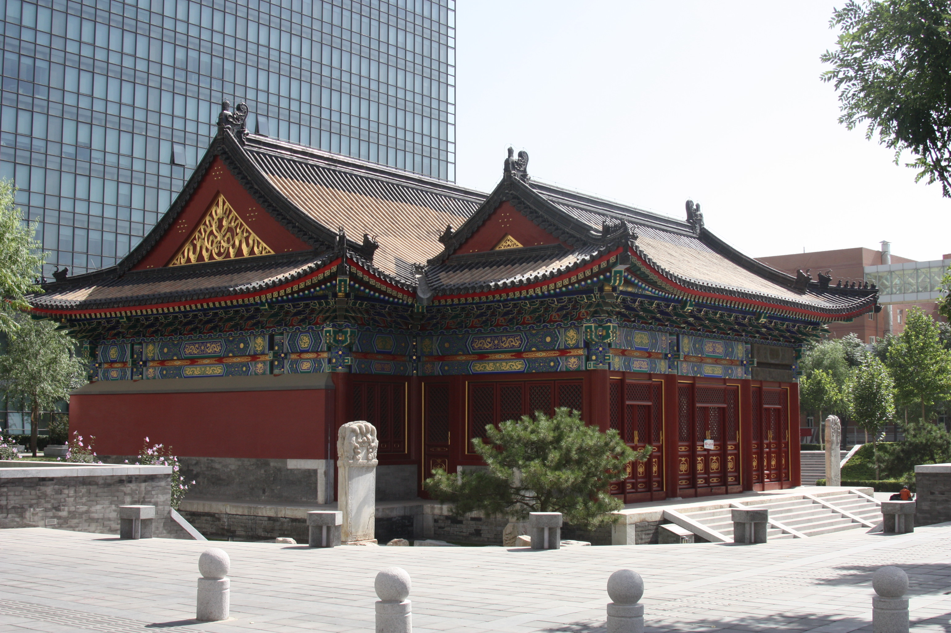 The Temple of the Town Deity in Beijing